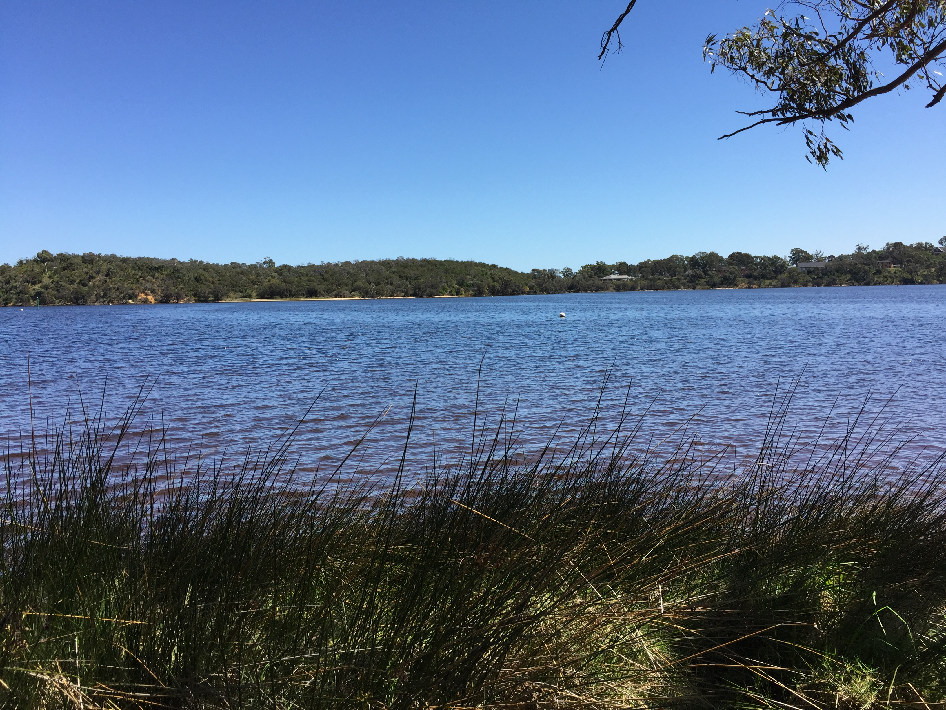 Canning River from south shore near Mount Henry